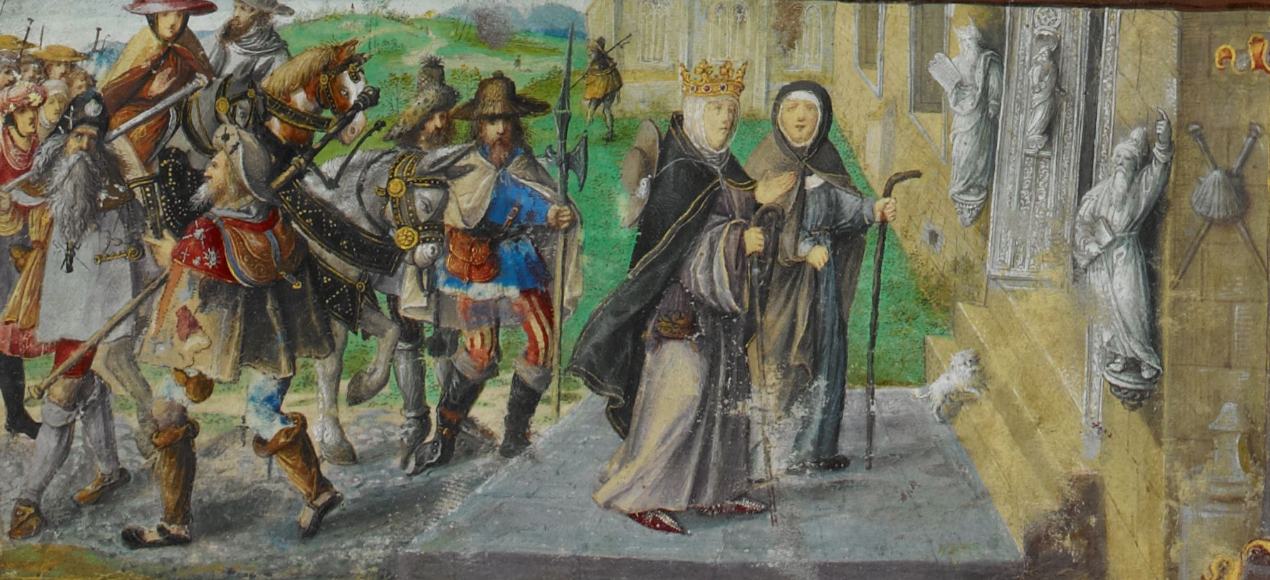 Saint Elizabeth, Queen of Portugal ("a Rainha Santa Isabel"), on pilgrimage to Santiago de Compostela.